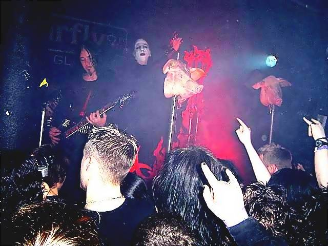 One of the pigs heads got stolen apparently, and was found outside the door of the local mosque!